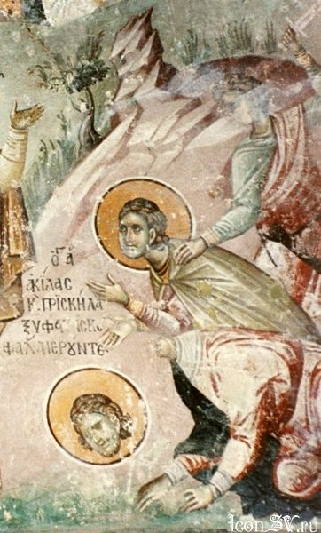 Torment of the Apostle Aquila. Kosovo. Gracanica Holy Annunciation Church Circa 1318